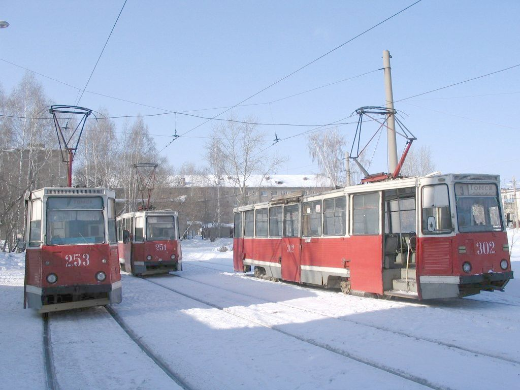 Old trams in Tomsk